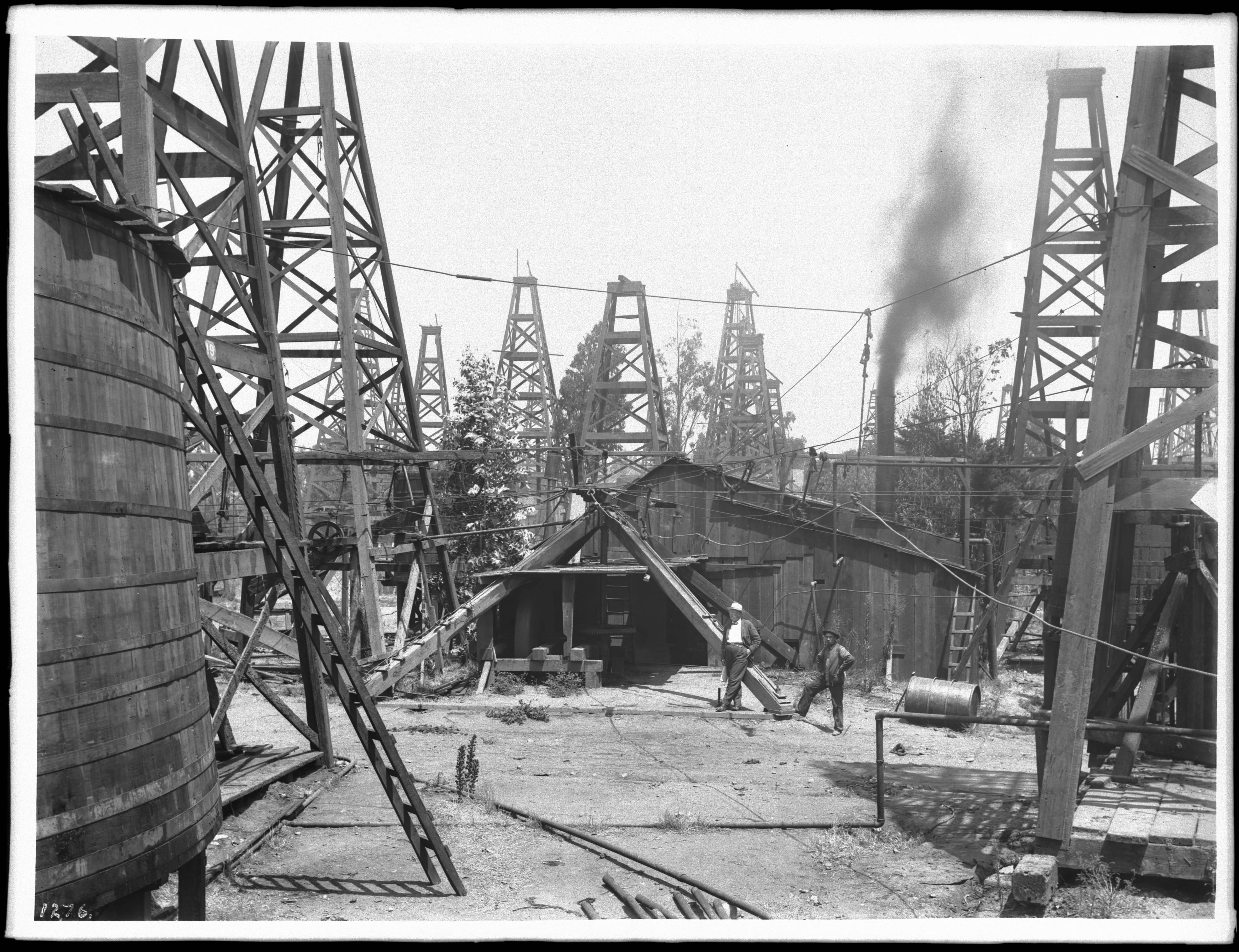 Two men standing near a wooden shed in the midst of dozens of oil derricks in a Los Angeles oil field Photograph of 2 men standing near a wooden shed in the midst of dozens of oil derricks in a Los Angeles oil field, Court Street and Toluca Street, 1904. A large wooden vat is at left. These wells have been producing for over 40 years when this image was taken (1904). Call number: CHS-1276 Filename: CHS-1276 Coverage date: 1904 Part of collection: California Historical Society Collection, 1860-1960 Format: glass plate negatives Type: images Geographic subject (city or populated place): Los Angeles Repository name: USC Libraries Special Collections Accession number: 1276 Microfiche number: 1-115-7 Archival file: chs_Volume90/CHS-1276.tiff Part of subcollection: Title Insurance and Trust, and C.C. Pierce Photography Collection, 1860-1960 Repository address: Doheny Memorial Library, Los Angeles, CA 90089-0189 Geographic subject (country): USA Format (aacr2): 2 photographs : photonegative, glass photonegative, b&w ; 4 x 5 cm., 17 x 22 cm. Rights: Digitally reproduced by the USC Digital Library; From the California Historical Society Collection at the University of Southern California Subject (adlf): industrial sites Repository Contributing entity: California Historical Society Date created: 1904 Publisher (of the digital version): University of Southern California. Libraries Format (aat): negatives (photographic); photographs Geographic subject (state): California Legacy record ID: chs-m14974 Access conditions: Send requests to address or e-mail given. Phone (213) 821-2366; fax (213) 740-2343. Geographic subject (county): Los Angeles Geographic subject (roadway): Court Street & Toluca Street Subject (lcsh): Petroleum industry and trade; Oil fields